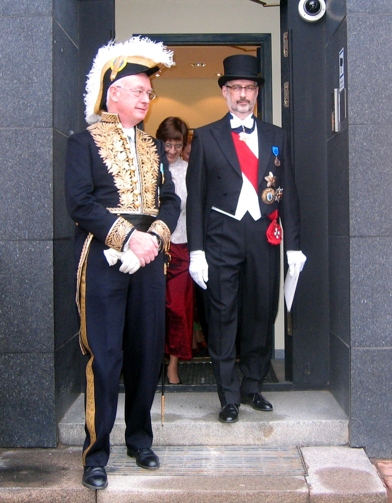 Jaak Jõerüüt, Ambassador to Sweden, met Sven Hirdman, Marshal of the Diplomatic Corps, to present his diplomatic credentials to Carl XVI Gustaf, King, in Sweden on April 7, 2011.